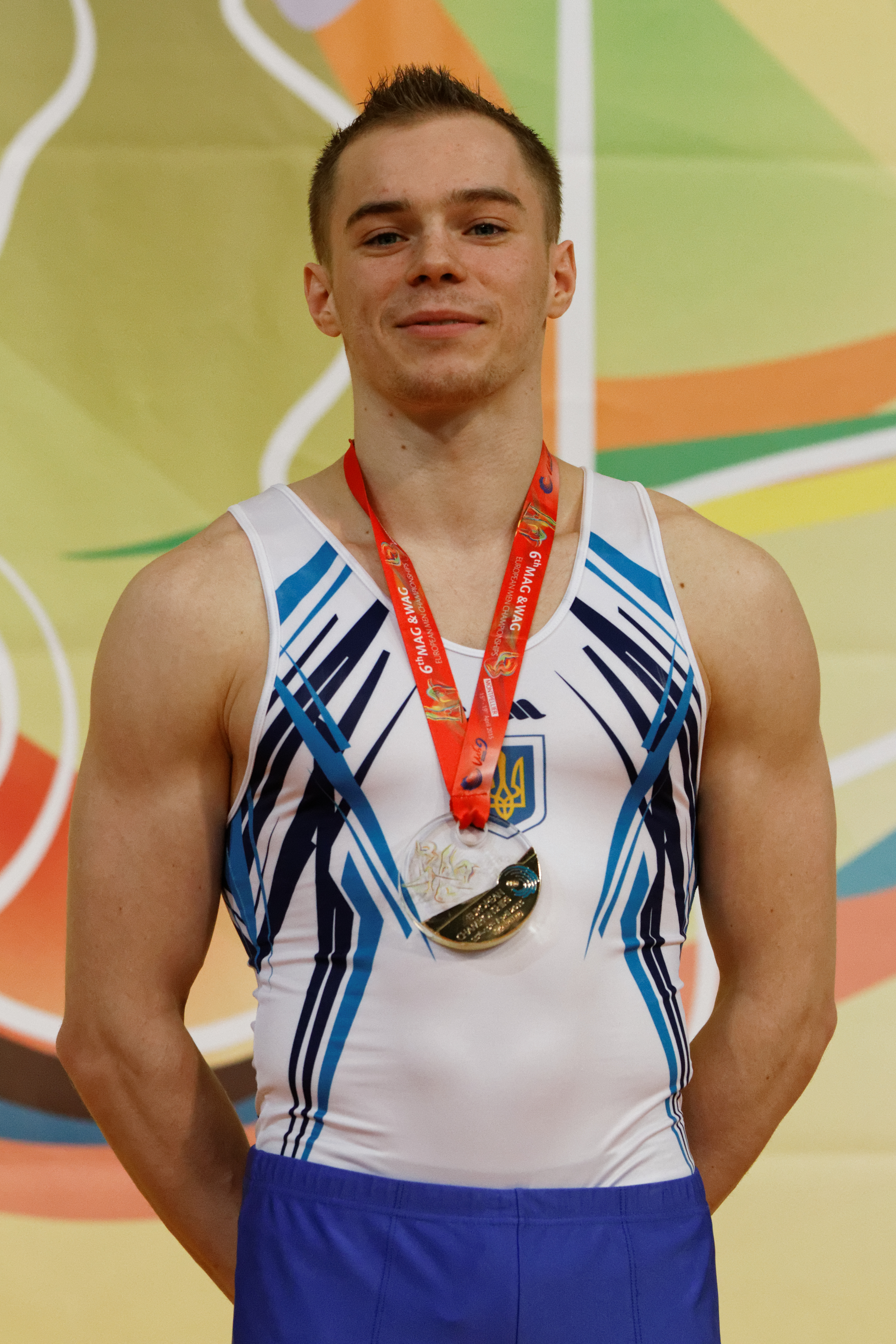 2015 European Artistic Gymnastics Championships.